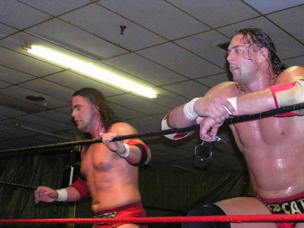 UWA Official Photographer Steveo